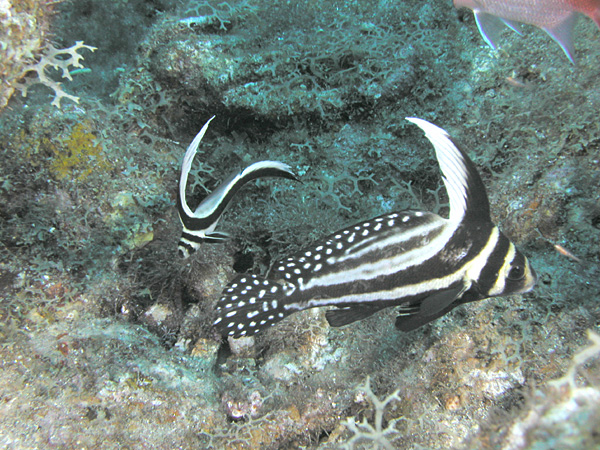 Adult and Juvenile Spotted Drumfish, St. Kitts. Image taken by Clark Anderson/Aquaimages.